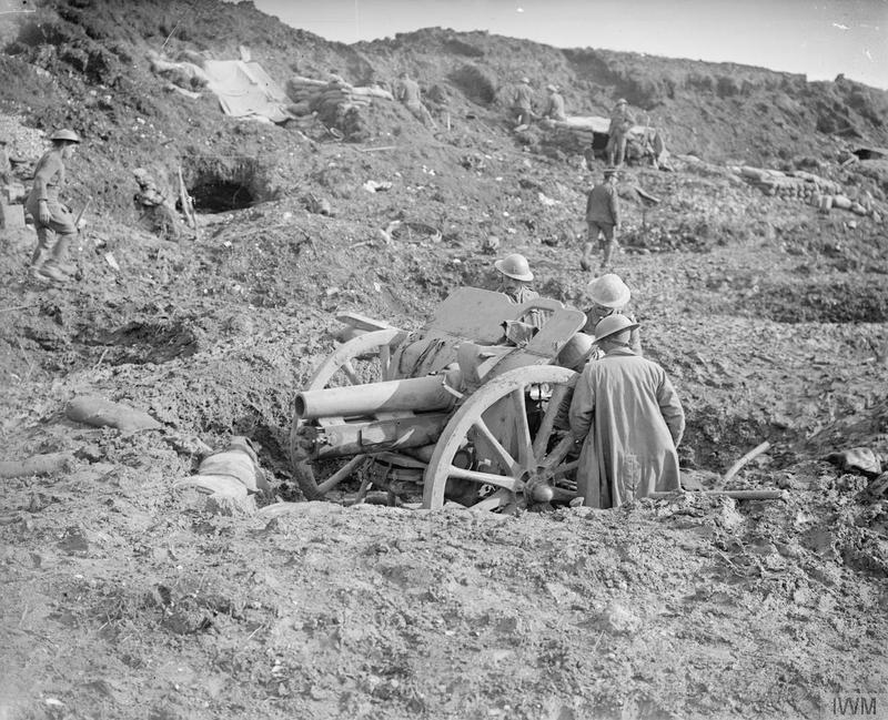 The Battle of the Somme, July-november 1916 Battle of Flers-Courcelette. Gunners of the Royal Field Artillery by a shell hole used as a gun position of an advanced field battery. Sunken wood (16 September 1916) which was captured on September 15th.